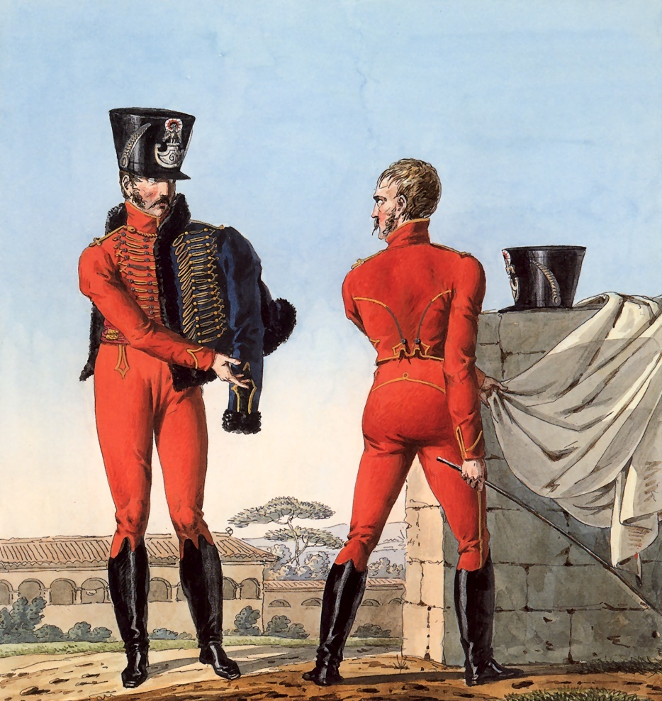 Part of a series chronicling the uniforms of Napoleon's Grande Armée.